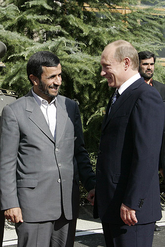 TEHRAN. With the President of Iran, Mahmoud Ahmadinejad.